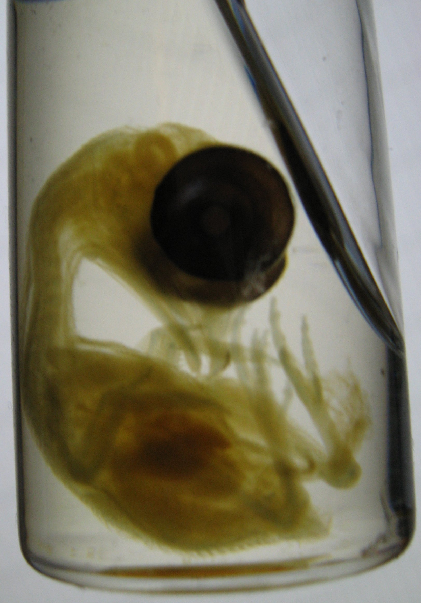 This little keepsake came from a Developmental Biology class I took at the University of Waterloo in 1998. Embryo was soaked in Methylene Blue to stain the skeleton, then cleansed with a few ethanol washes, and finally treated with Oil of Wintergreen (Methyl Salicylate) to make the surrounding tissues transparent. I actually failed to produce the desired result in this experiment, since I didn't cut off enough of the limb bud to affect bone development, but I kept the sample anyways because it makes a fabulously morbid desk ornament. Photograph was taken with a Canon Powershot A550 in macro mode, backlit by an LCD computer monitor.